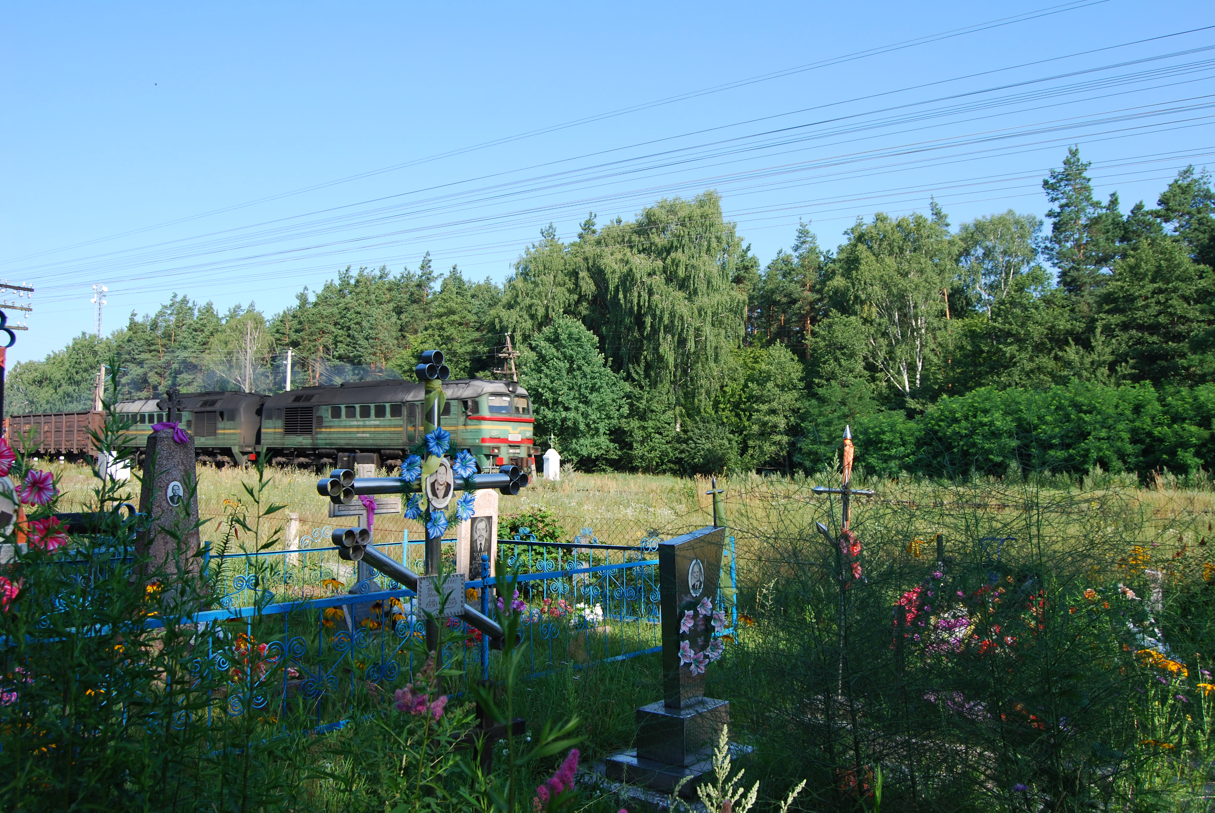 Antonówka - the view from Greek-catholik cemetery and remnants of Catholik cemetery on railway line Sarny-Kowel. From this place Germans deported Poles for forced labor in the Reich.